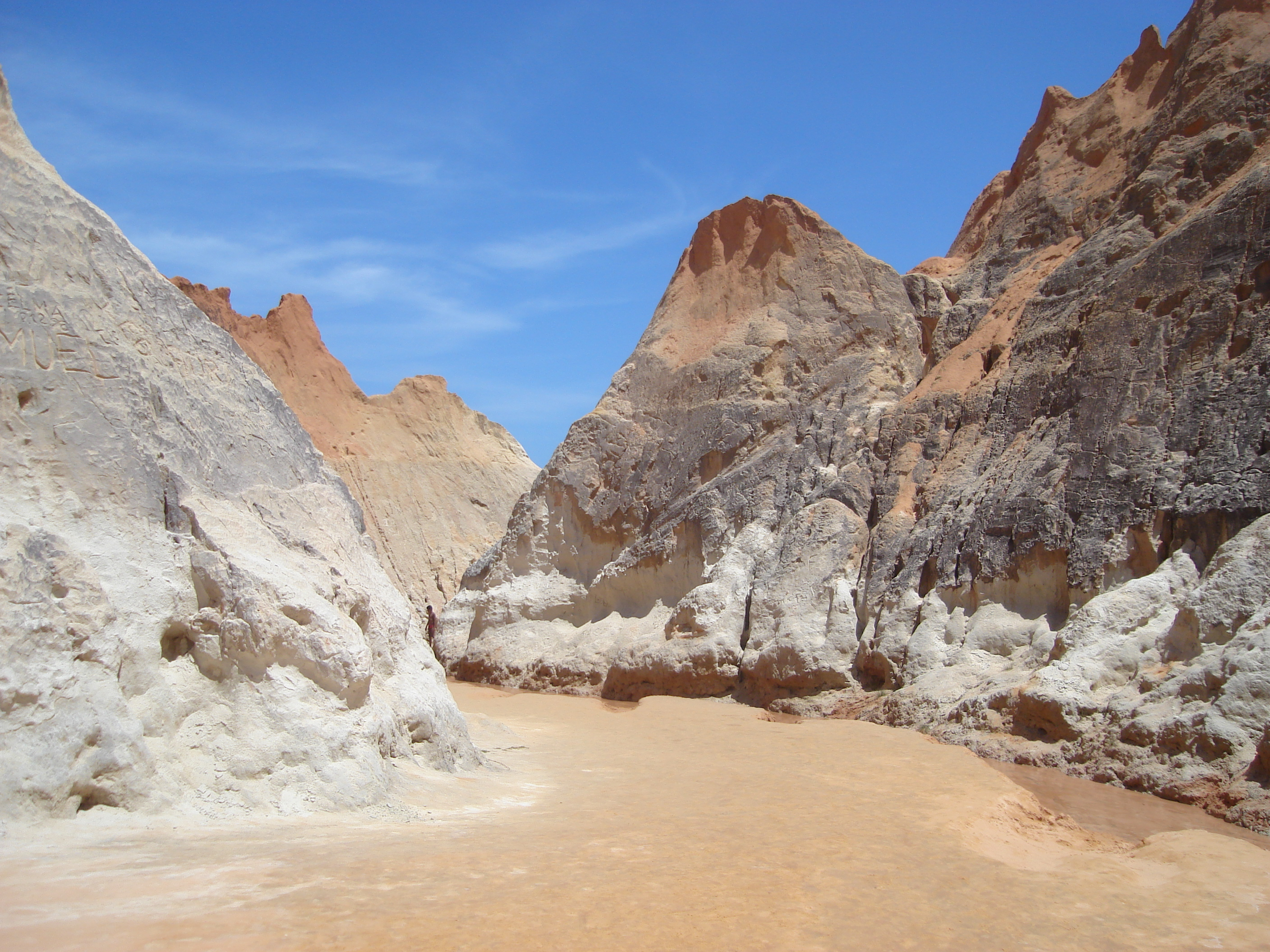 Monumento Natural Falésias de Beberibe, Ceará, Brazil - Beberibe Cliff, Ceará Brazil